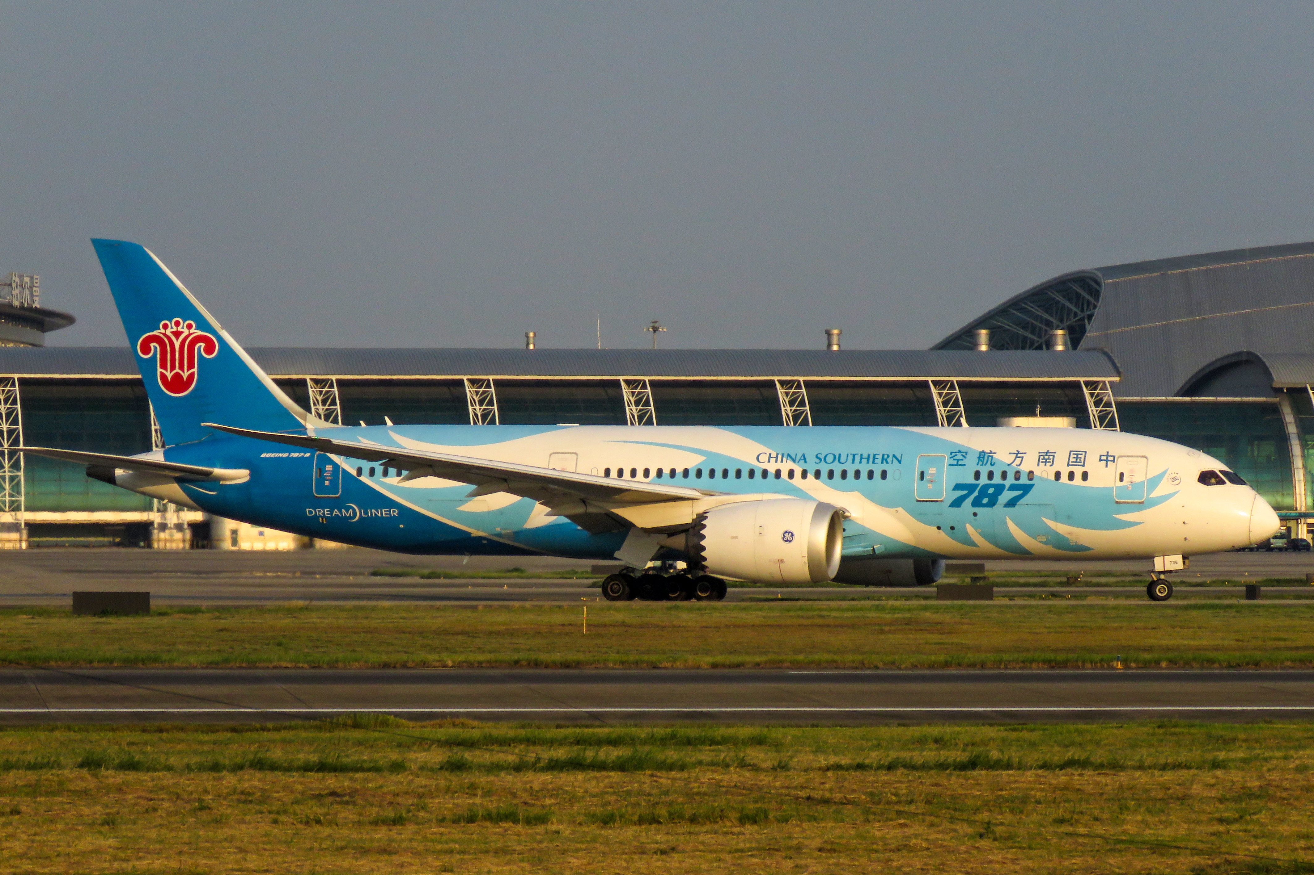 China Southern 6980 to Urumqi.